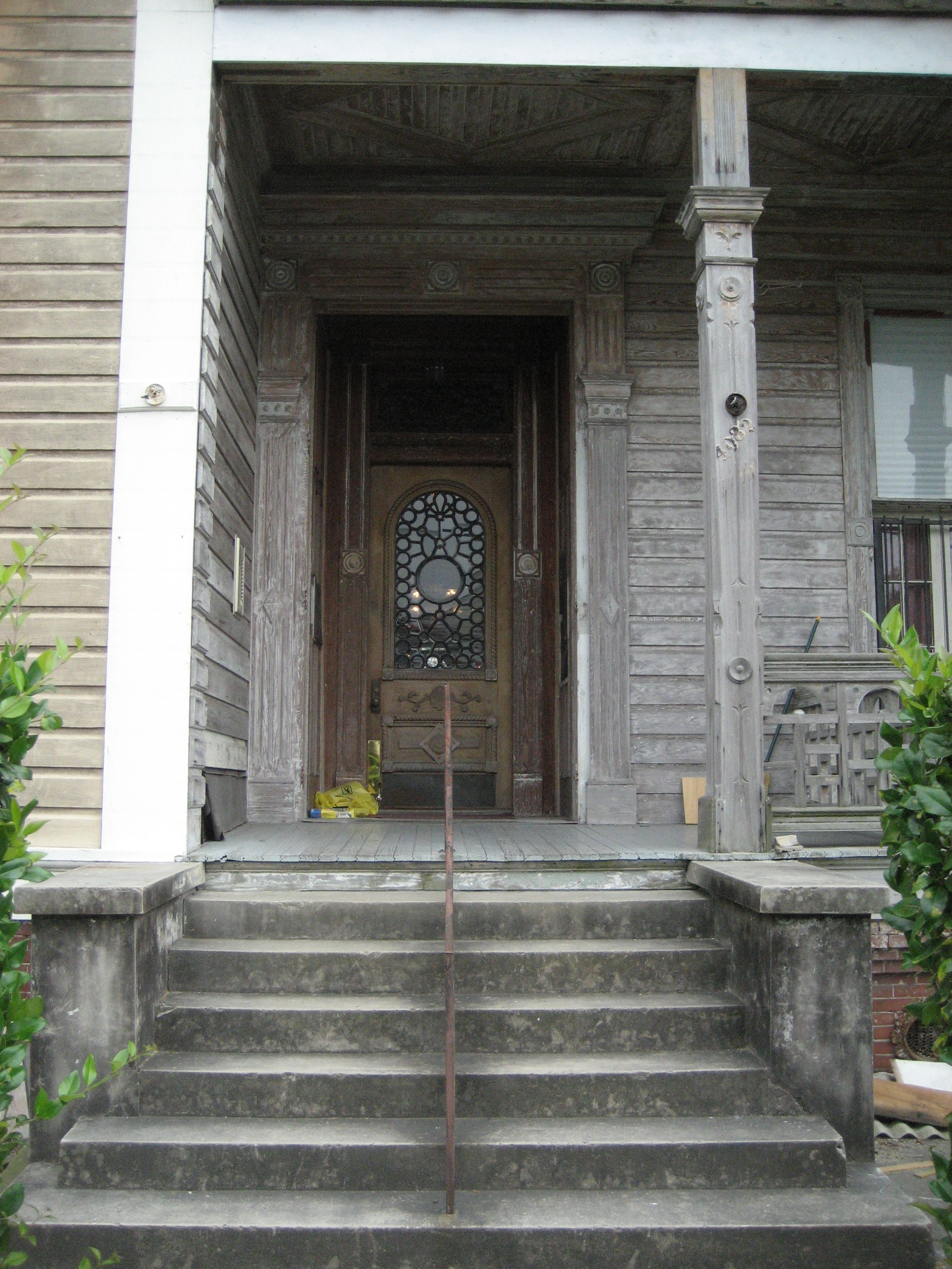 Uptown New Orleans. Doorway of Victorian house on Prytania Street.